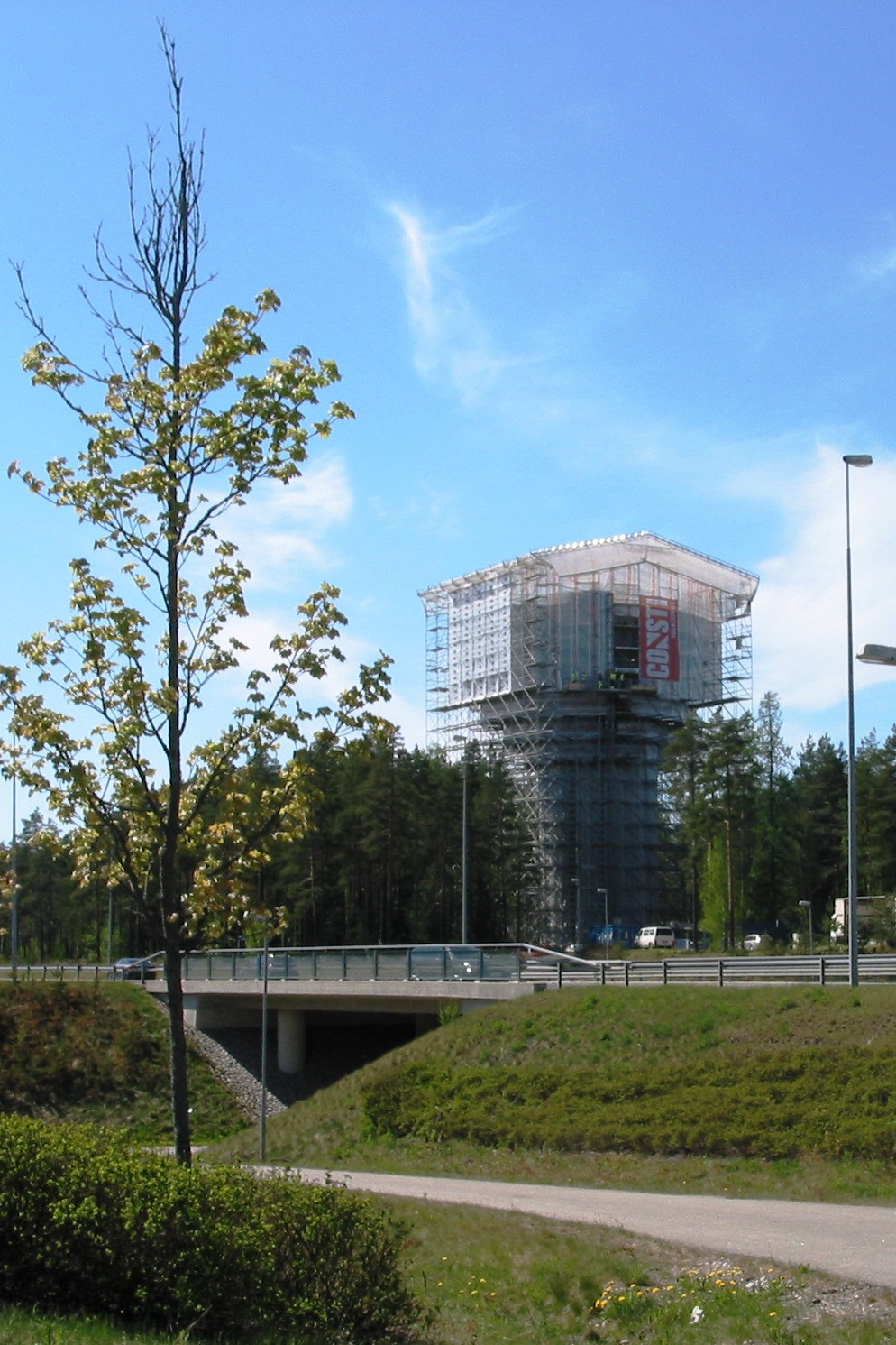 Water tower near Lohja Railway station spring 2016 - under renovation, in Finland.